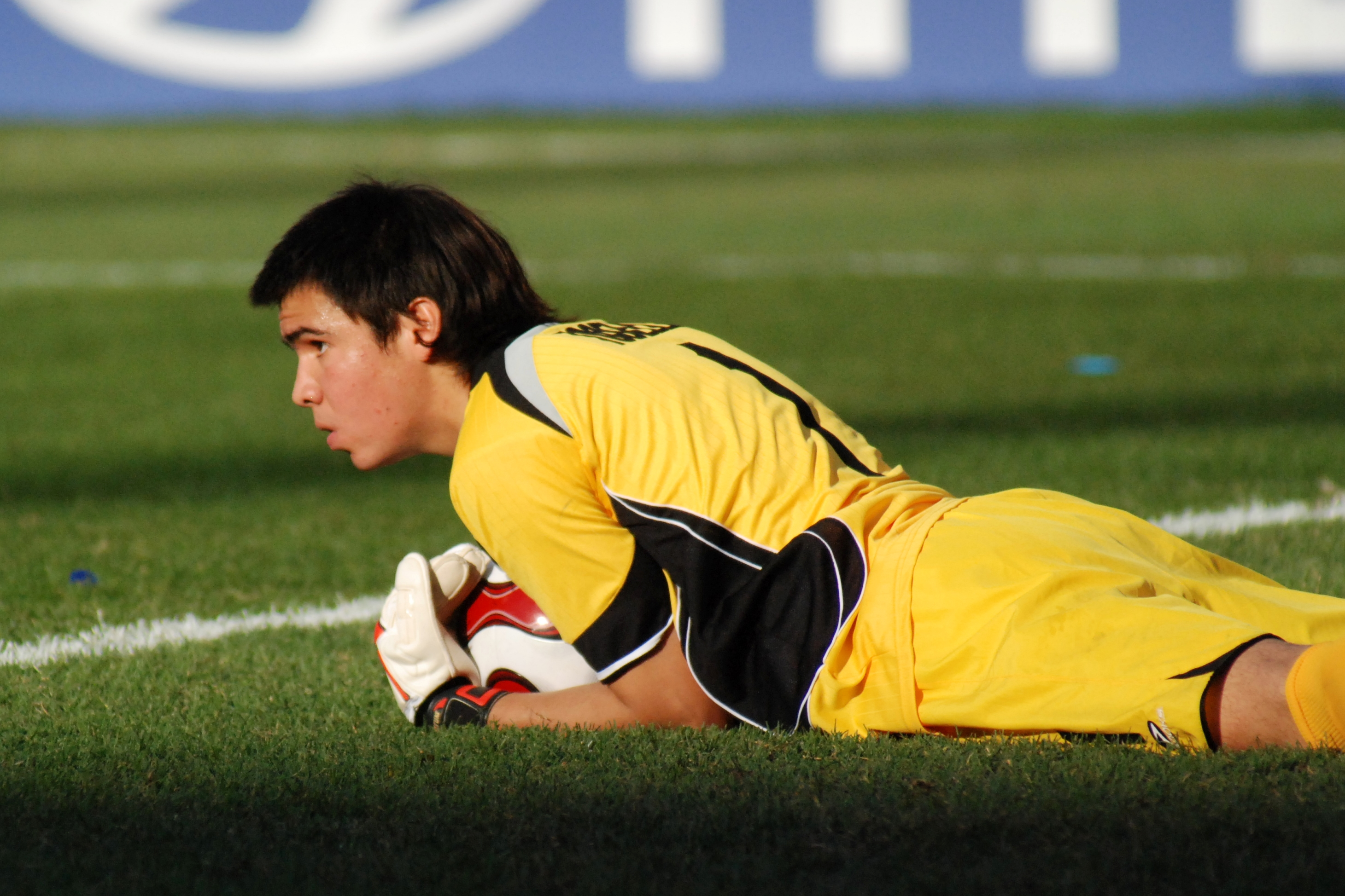 Chilean Goalkeeper Cristopher Toselli clutches the ball during the Portugal vs. Chile Round of 16 match, played at Commonwealth Stadium, Edmonton, Alberta, Canada.